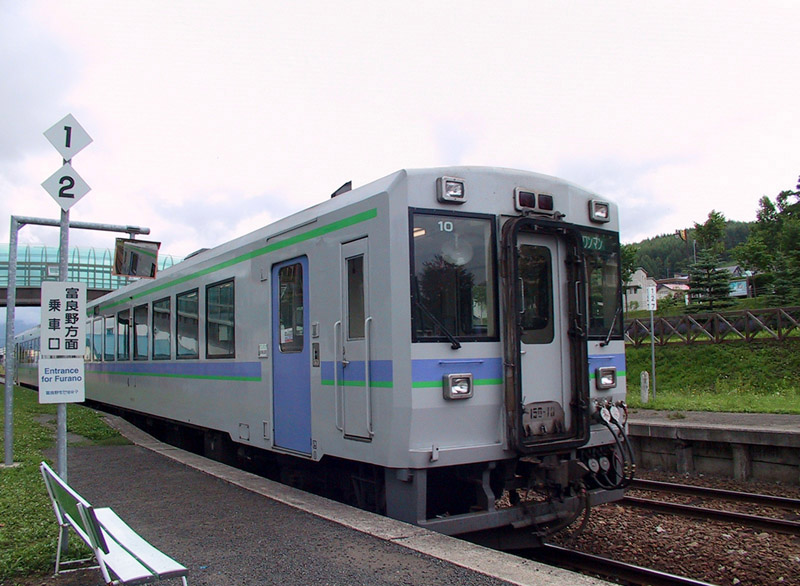 JR Hokkaido Kiha 150 is the main train type used on Furano Line, central Hokkaido. 150型柴聯車是北海道中部富良野線上主要使用的車輛。